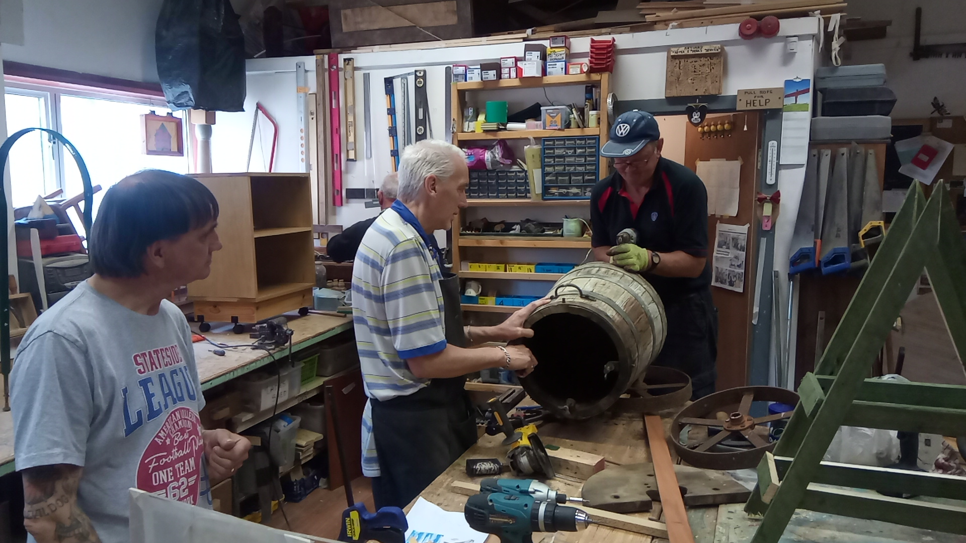 Jed shed refurbishing 2019